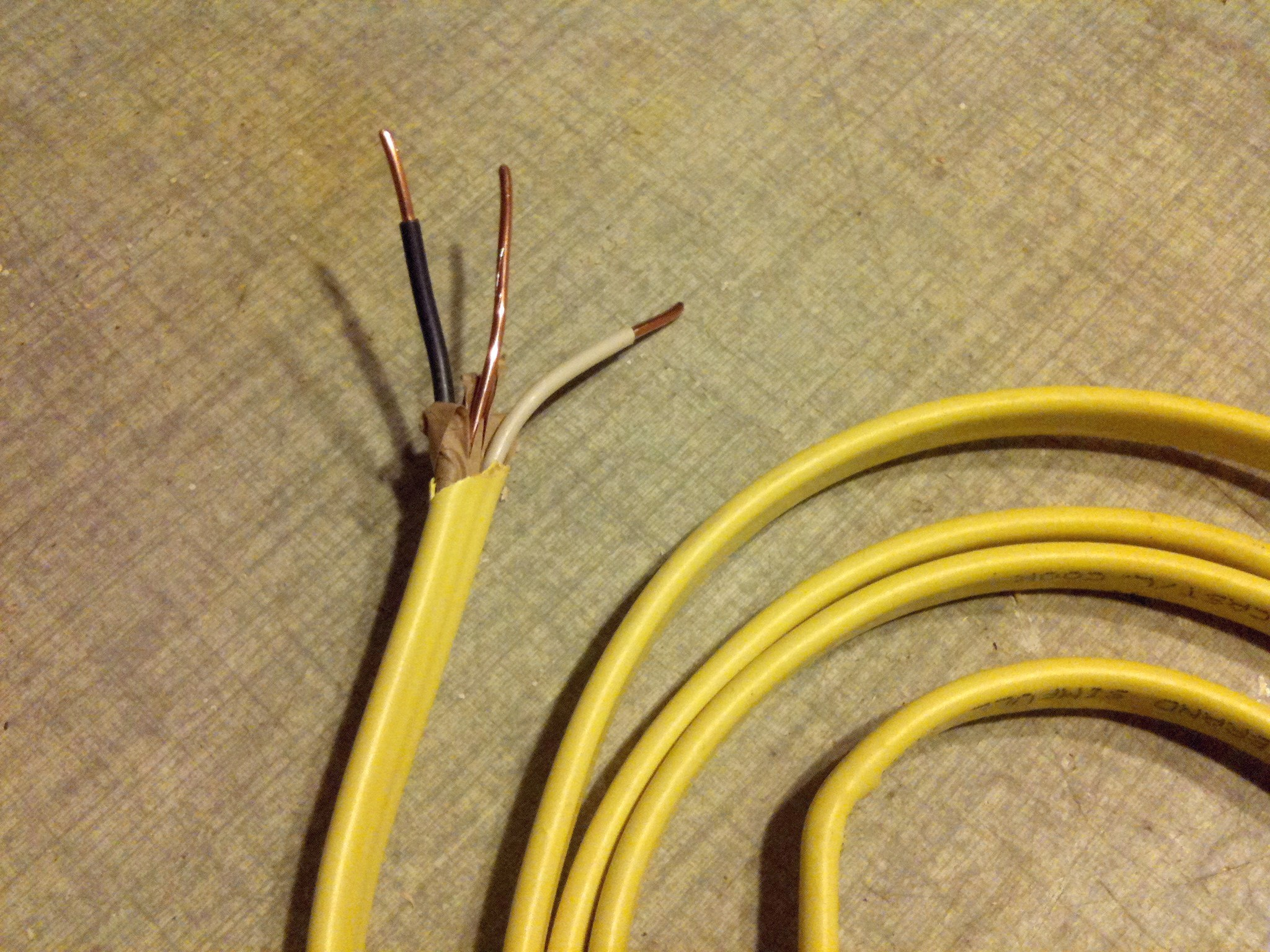 Romex electrical cable, with two conductors plus safety ground, of the type widely used in the United States for indoor wiring.